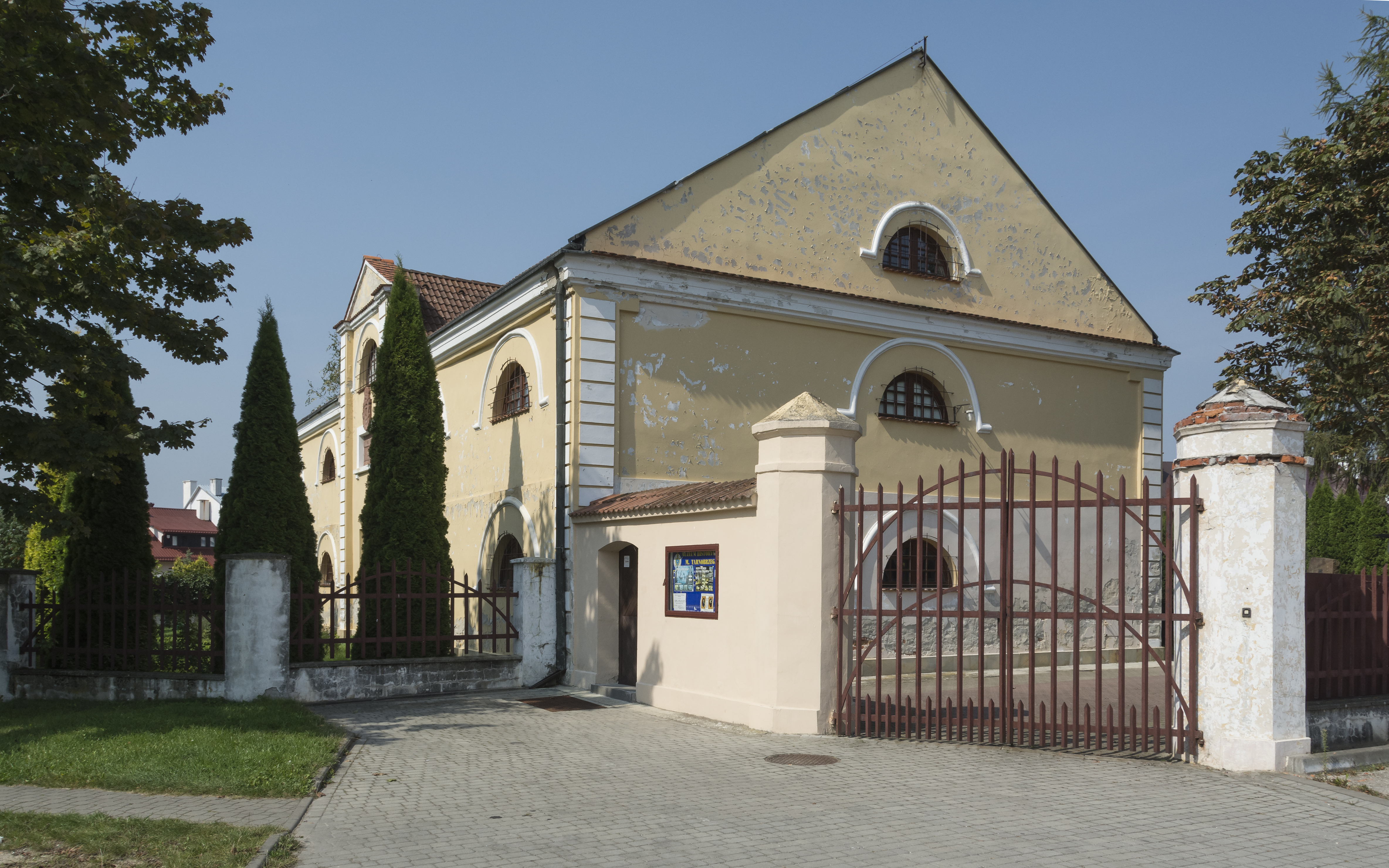 The historic granary in Tarnobrzeg